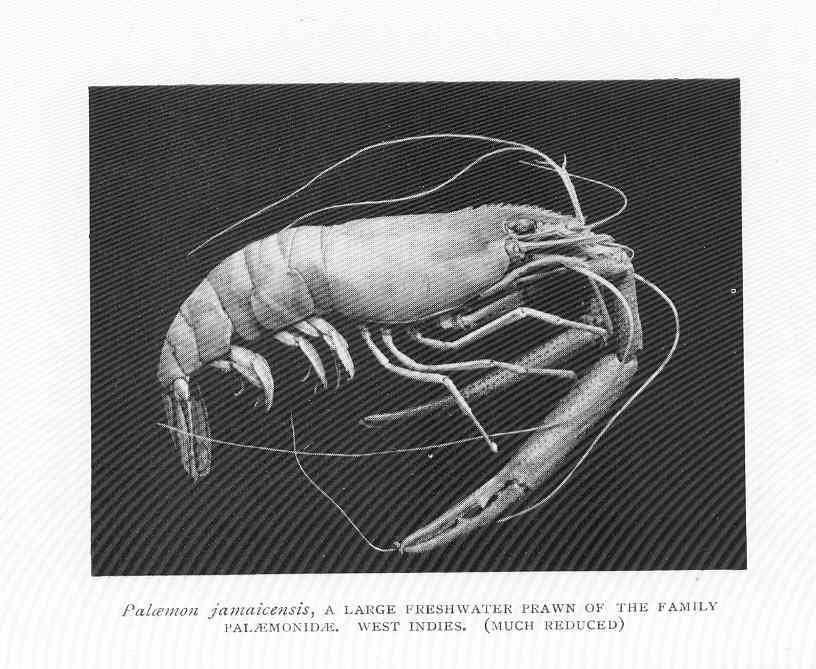 Palaemon jamaiciensis, A large freshwater prawn of the family Palaemonidae, West Indies Subject: Palaemonidae, Shrimps Tag: Shellfish